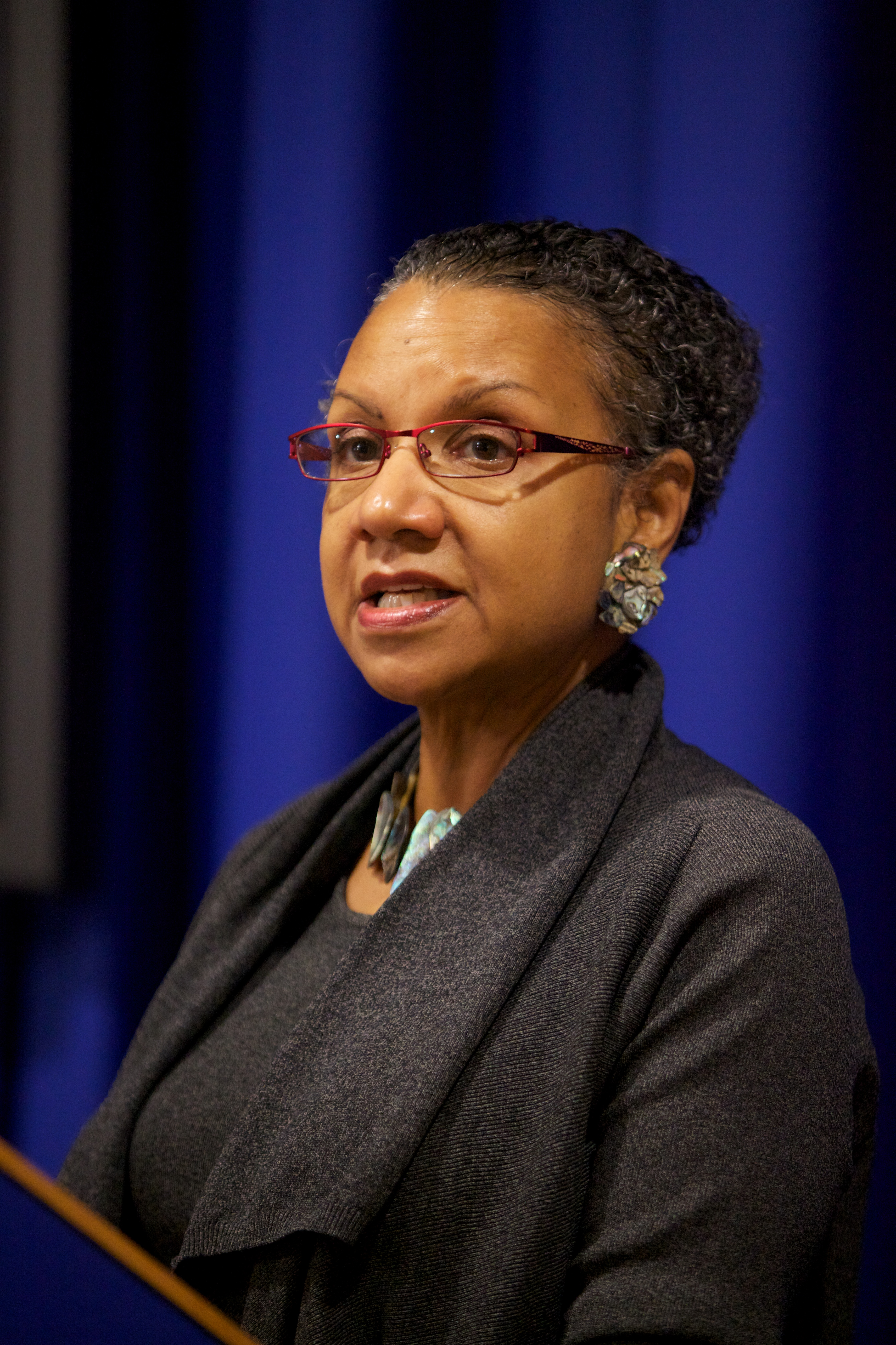 A'lelia Bundles, chair of the Foundation for the National Archives, speaks at the press preview. Photo by Earl McDonald of the National Archives